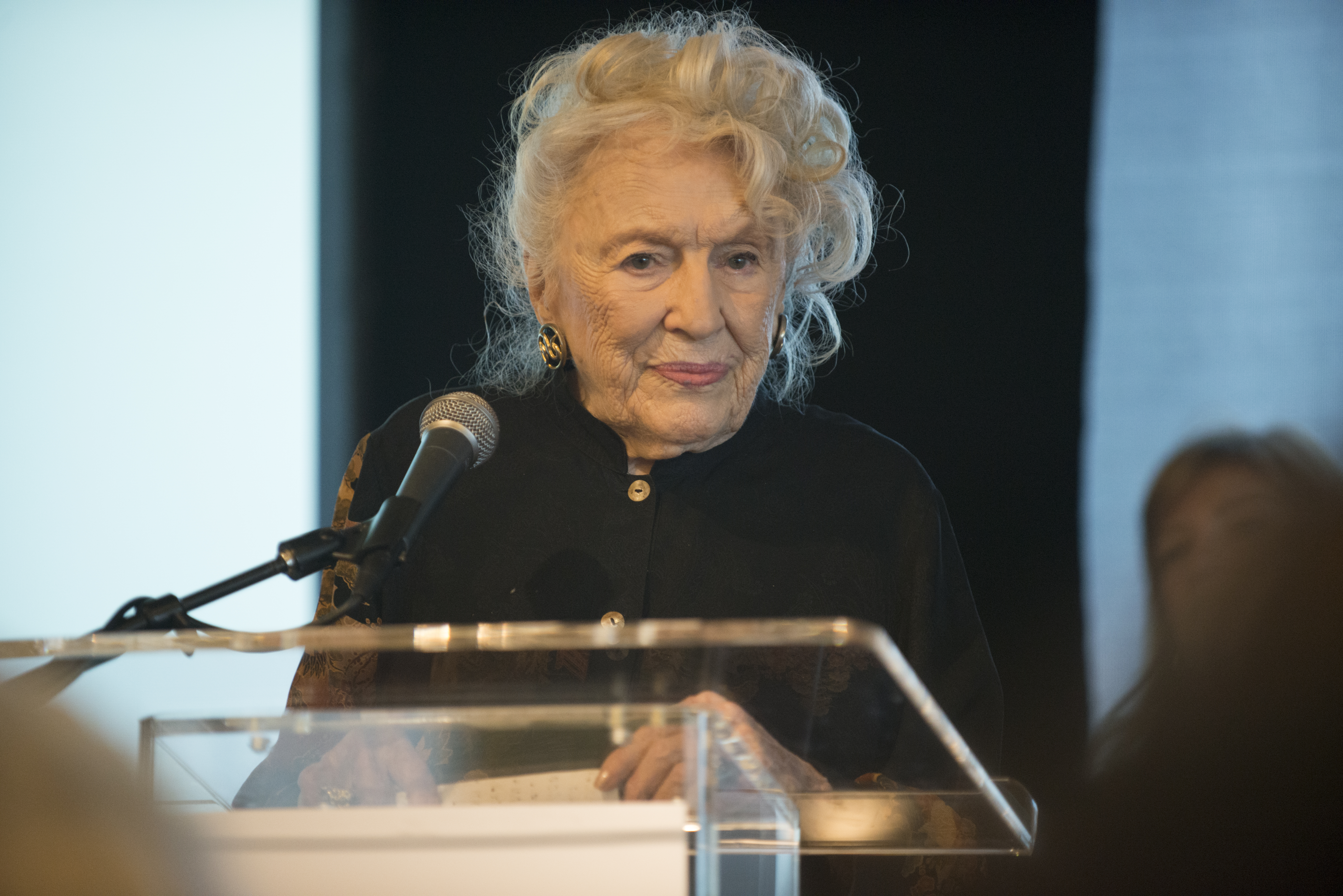 Bel Kaufman, Rachel Cohen Gerrol and Rachel Sklar are honored at Making Trouble/Making History, the Third Annual Jewish Women's Archive luncheon "honoring Jewish women who share our commitment to making trouble and inspiring change" held at the Museum of Jewish Heritage in New York City on March 10, 2013. Words of Welcome are by Letty Cottin Pogrebin, with Songs of Celebration Angela Warnick Buchdahl. The mission of the JWA, a non-profit, is to "uncover, chronicle, and transmit to a broad public the rich history of American Jewish women." Photo by Angela Jimenez